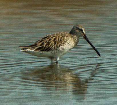 Asian Dowitcher - Thailand_S4E6815